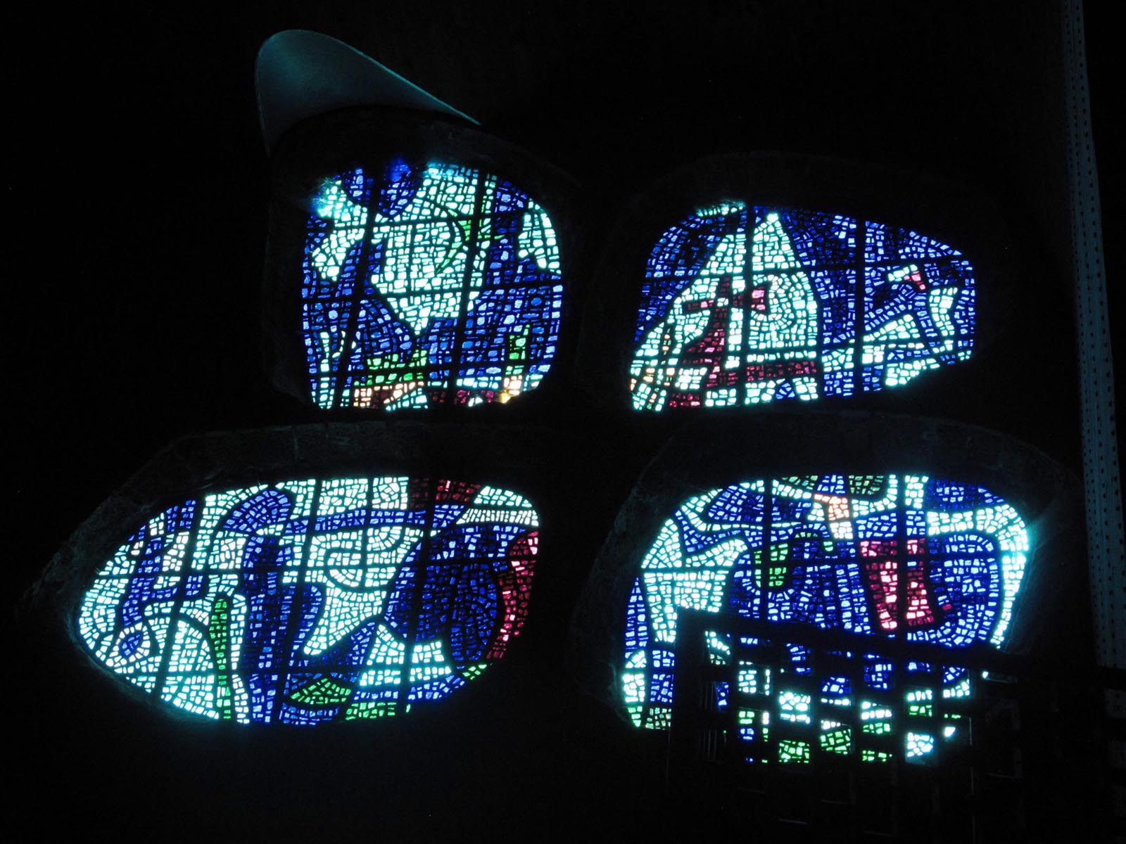 Xabier Alvarez de Eulate, stained glass windows, - Spain, Sanctuary of Arantzazu